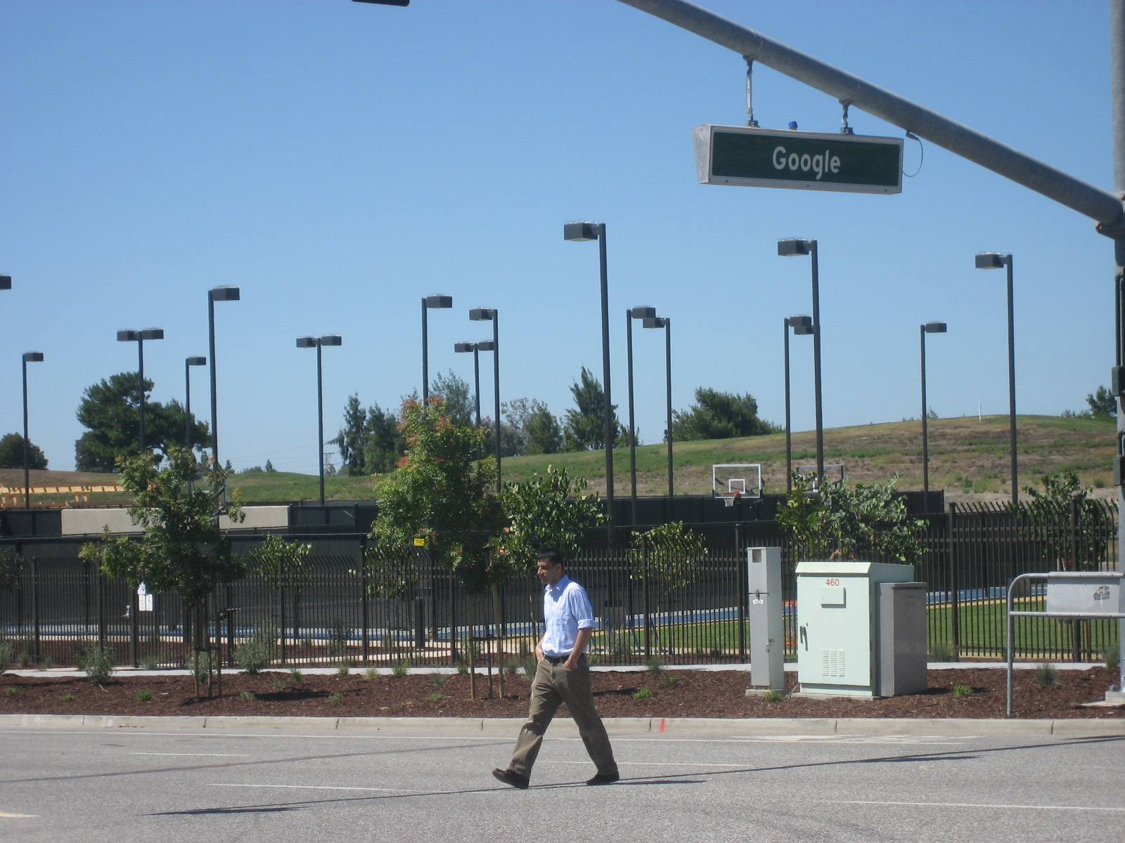 Google Driver near Google headquarters in Mountain View, CA